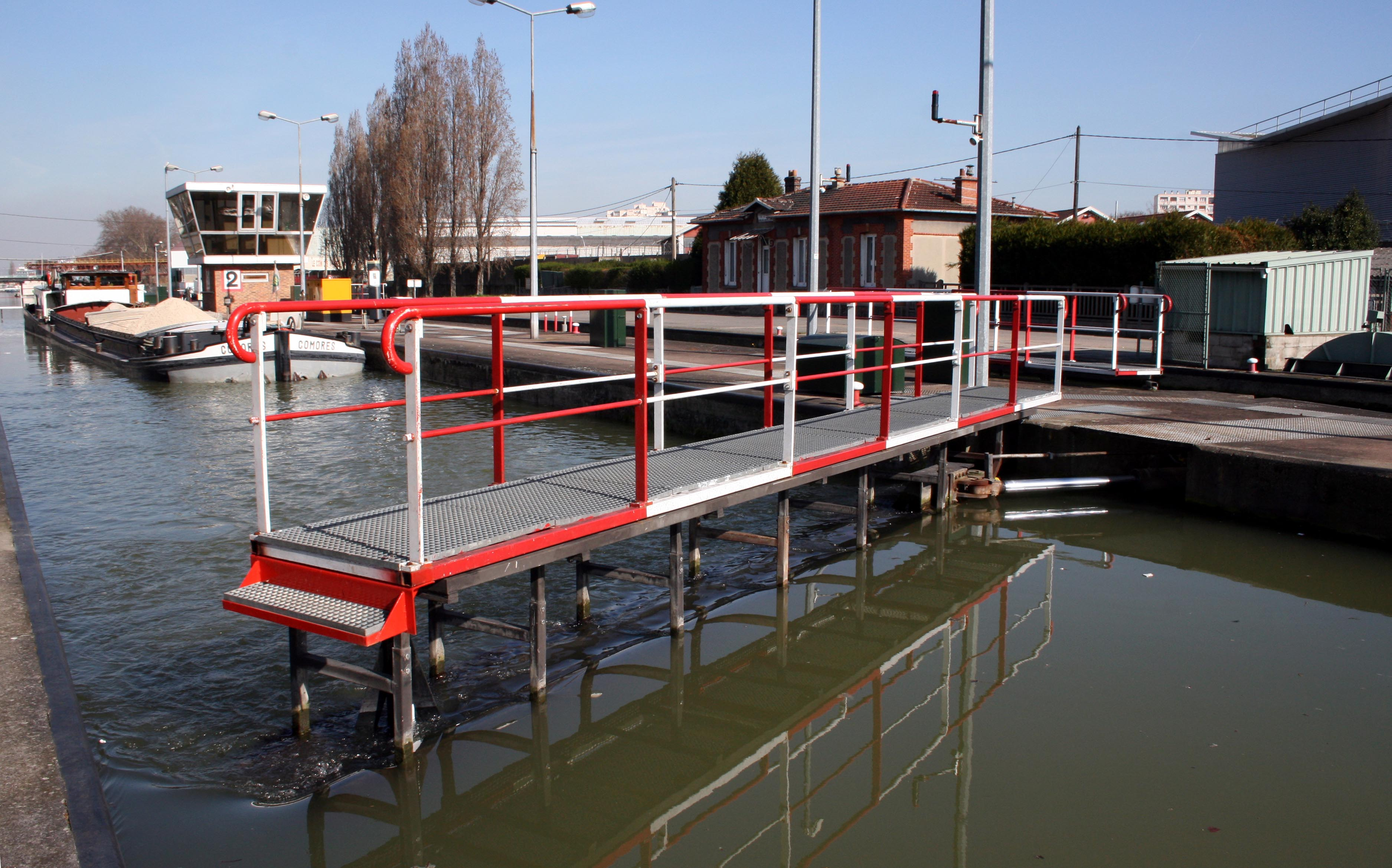 Description =Ecluse numero 2 du canal Saint-Denis Source =Photo taken by Remi Jouan Date =Mars 2007 Author =Remi Jouan